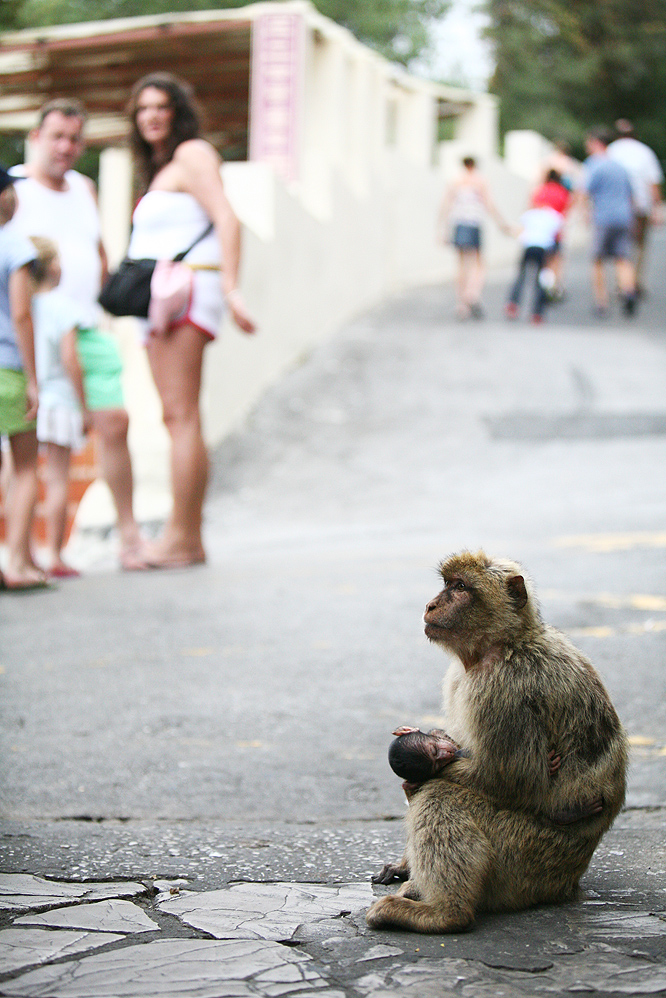 Can you believe the nerve of some monkeys?